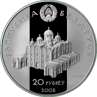 2005 20 Ruble Silver Commemorative coin of Vseslav (Usiaslau) of Polotsk